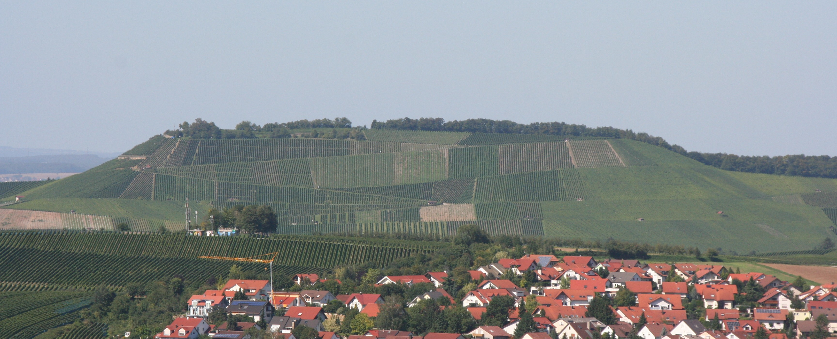 The Scheuerberg hill in Neckarsulm as seen from the Schemelsberg hill in Weinsberg, in the foreground Erlenbach